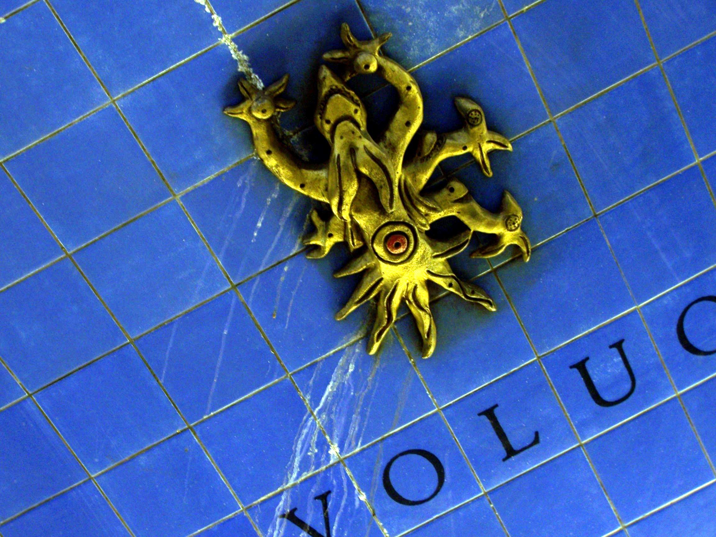 detail at the Lisbon metro station Parque, blue line